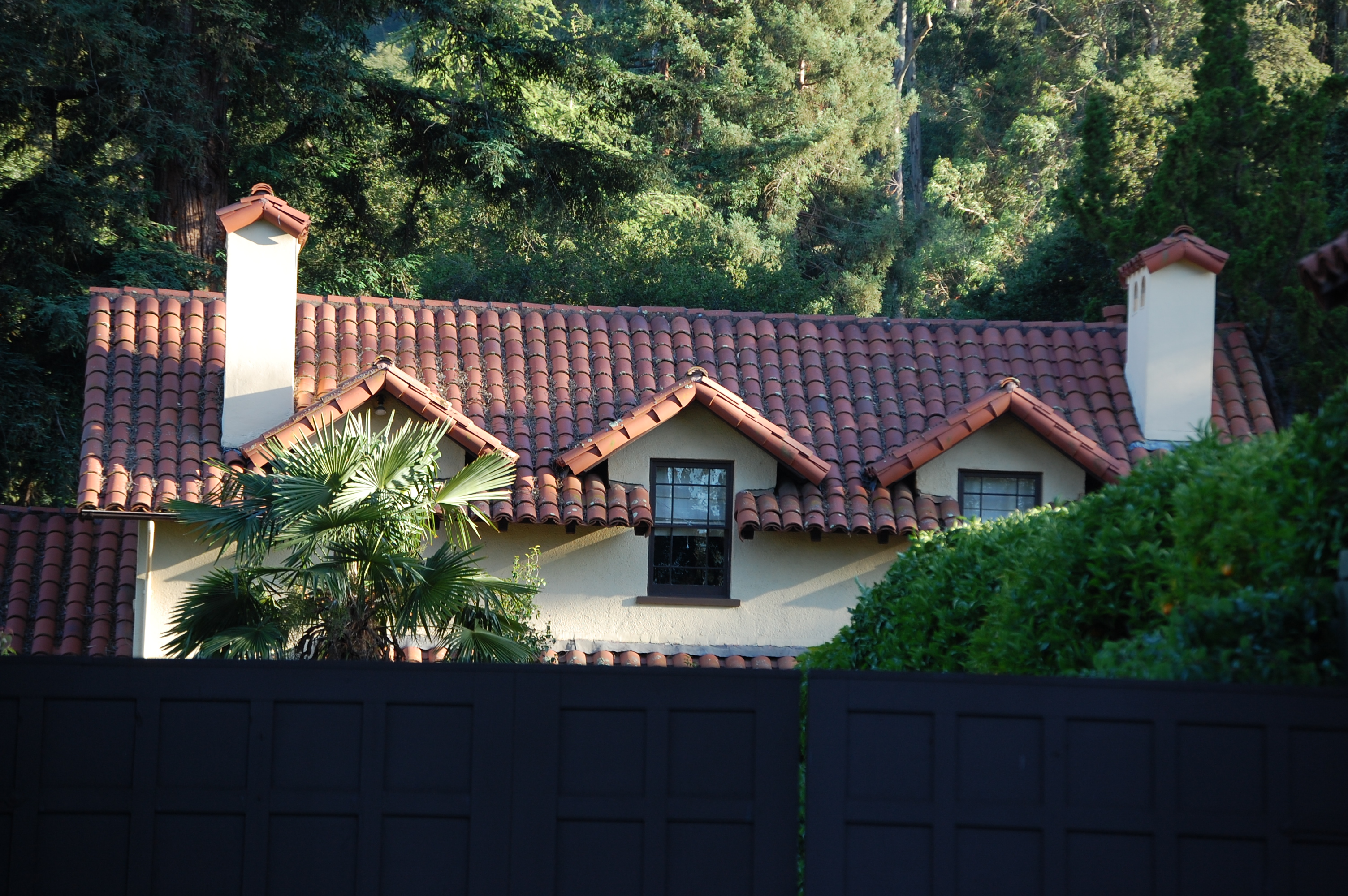 McCullagh-Jones house. Built in 1901. 18000 Overlook Road. Los Gatos, California, USA